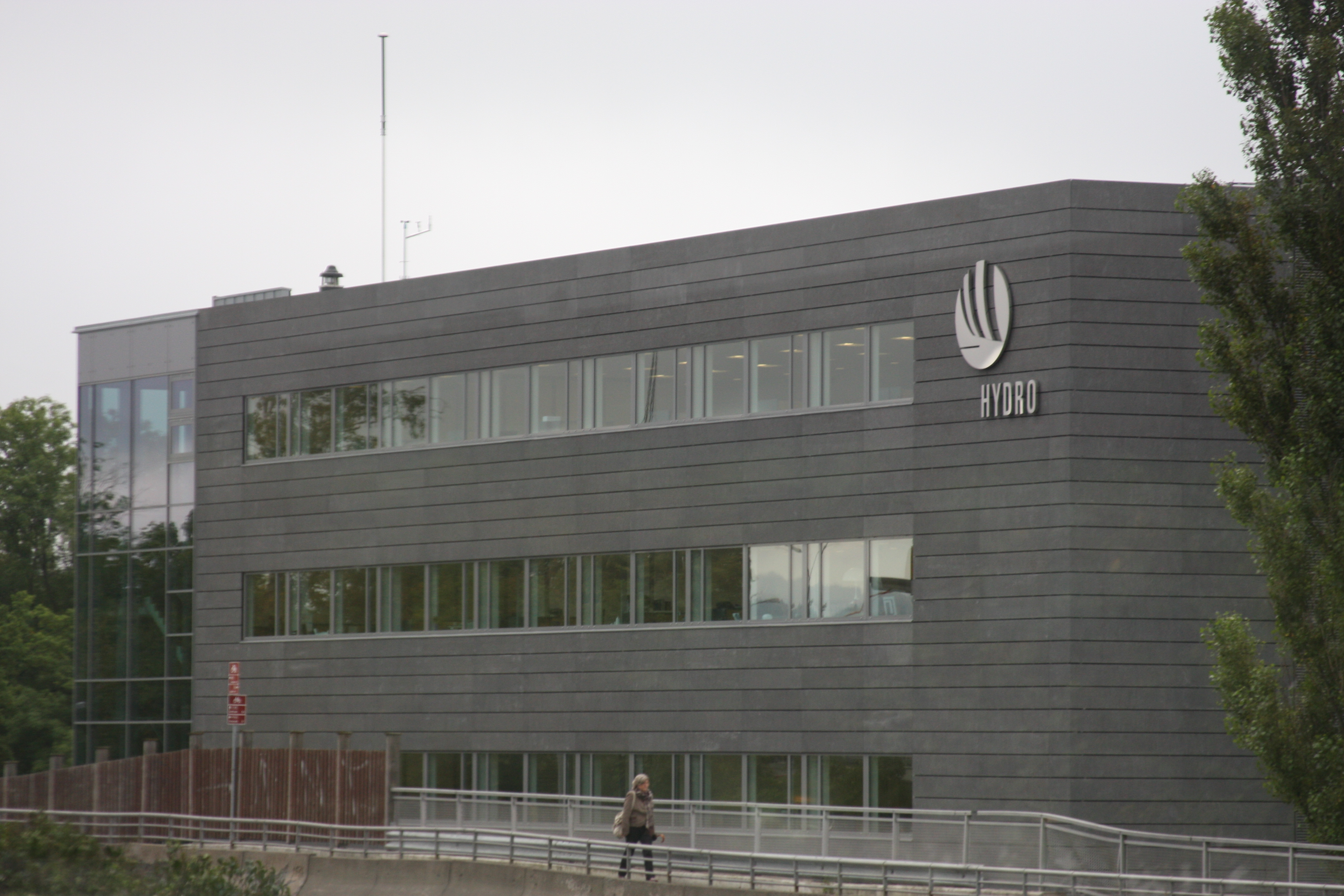 Norsk Hydro headquarters, Vaekeroe, Oslo